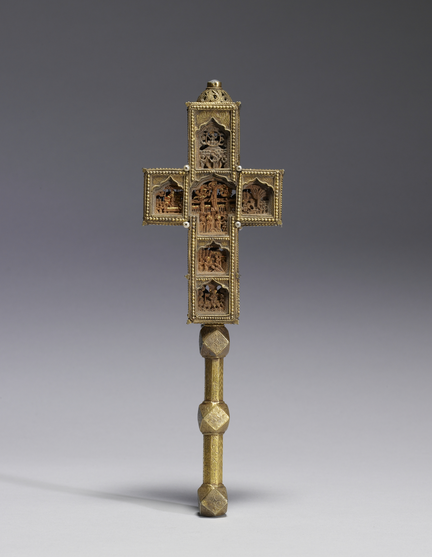 The Georgian inscription on the handle of this cross indicates that its silver frame was commissioned in 1713 by Domentius IV (Damian Bagrationi), Patriarch of the Georgian Orthodox Church from 1705 to 1741, "for the forgiveness of his sins." The woodcarving inside carries Greek inscriptions and was most probably brought to Georgia from Greece. It shows scenes from the life of Christ: the Nativity (center), Annunciation (top), Baptism (left), Presentation in the Temple (right), Transfiguration, and Resurrection (bottom) on one side, and on the other: the Crucifixion, Ascension, Dormition of the Virgin, Entry into Jerusalem, Raising of Lazarus, and Pentecost. This type of cross was used for blessing the faithful during Church ceremonies.